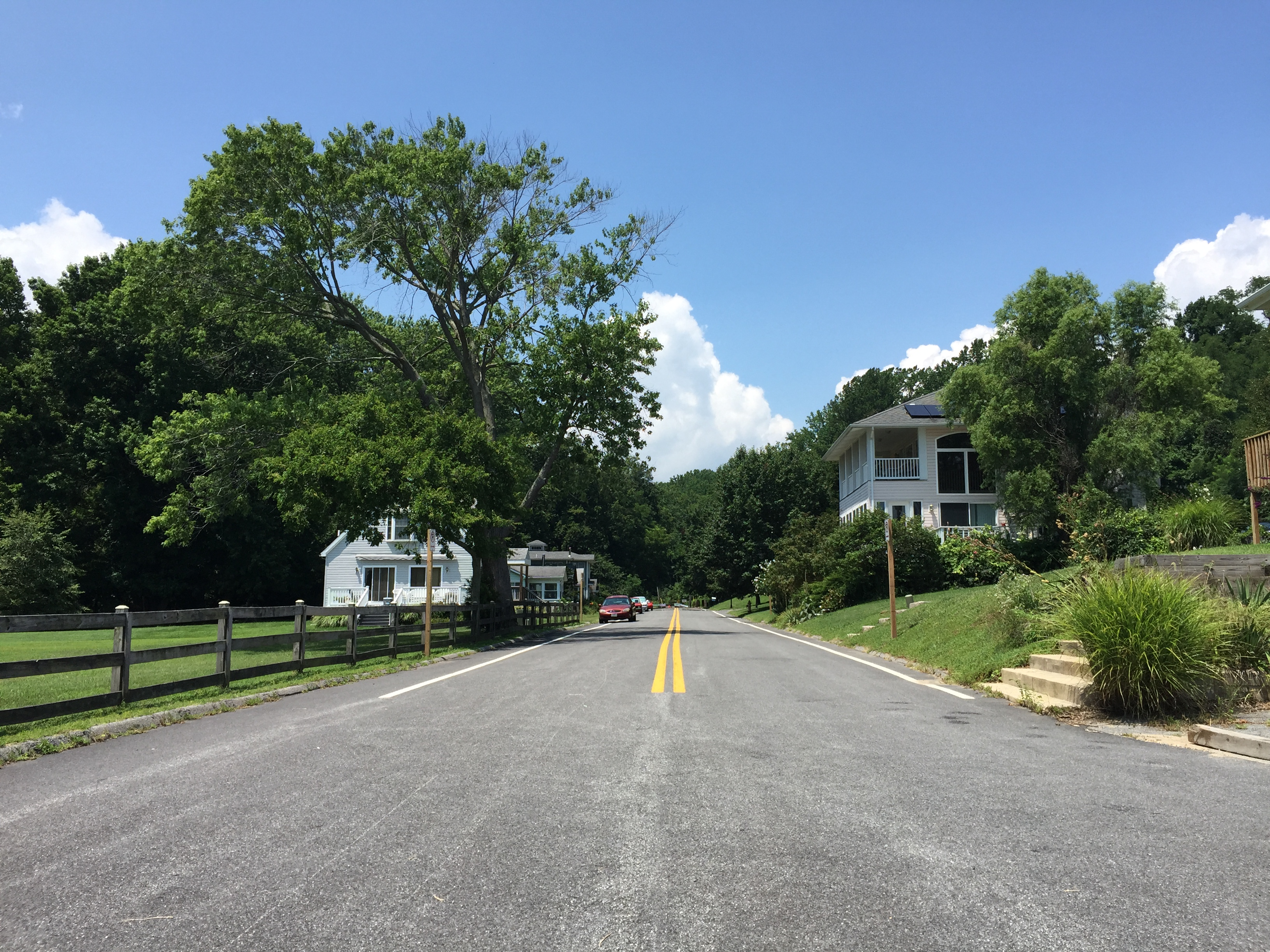 View west along Maryland State Route 509 (Governor Run Road) just west of the Chesapeake Bay in Governor Run, Calvert County, Maryland